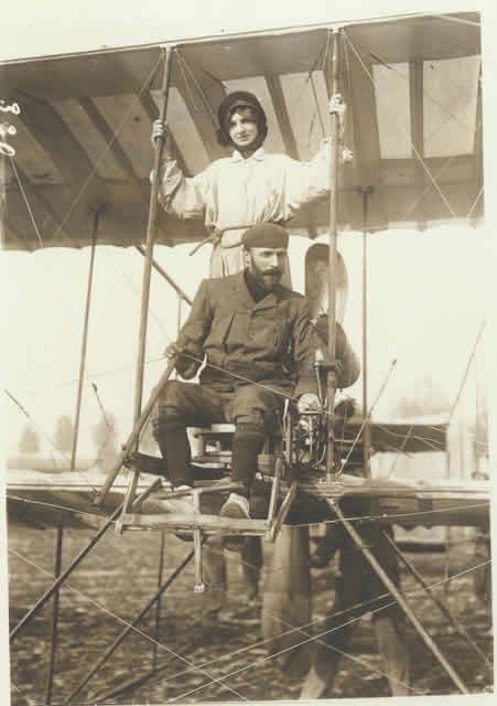 Close-up view of Henri Farman seated at the controls of one of his biplanes; standing behind as a passenger is Madame Dacty [sp?] dressed in coveralls with a rope around her waist. Etampes, France, September 21, 1913.